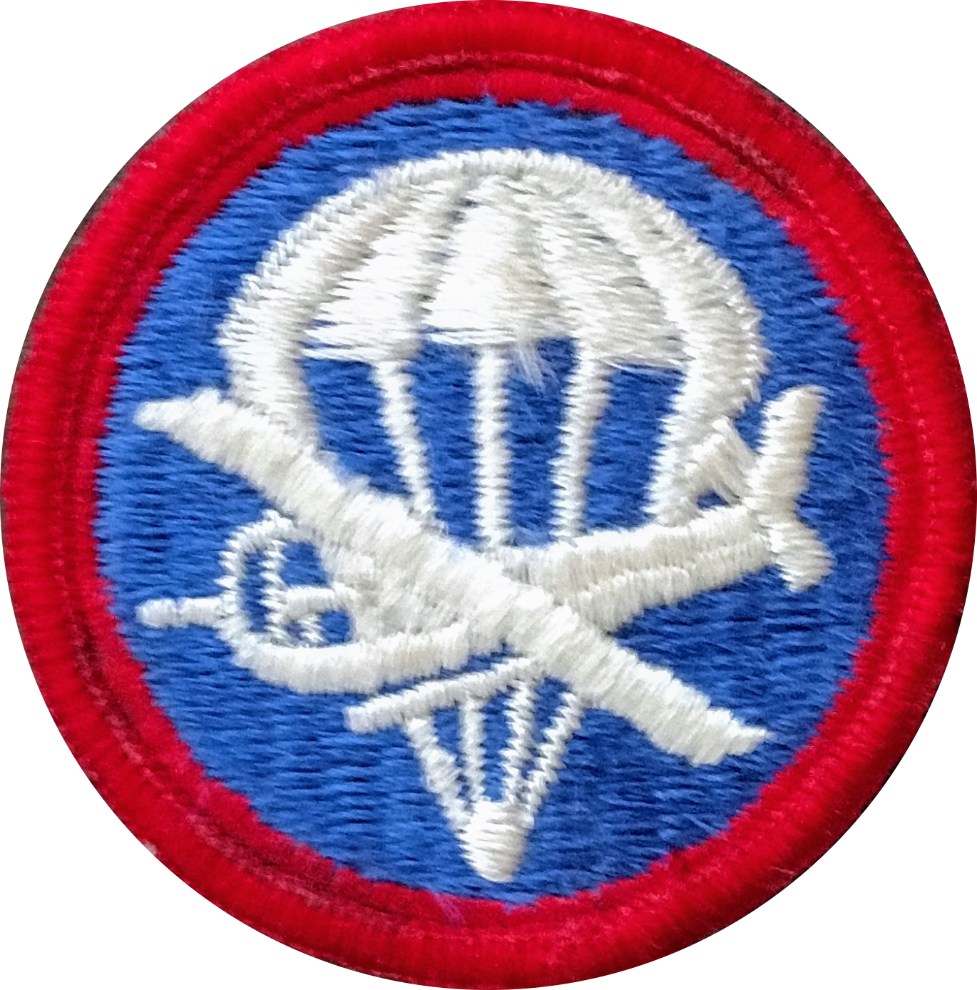 Former U.S. Army Service Uniform garrison cap Airborne Insignia